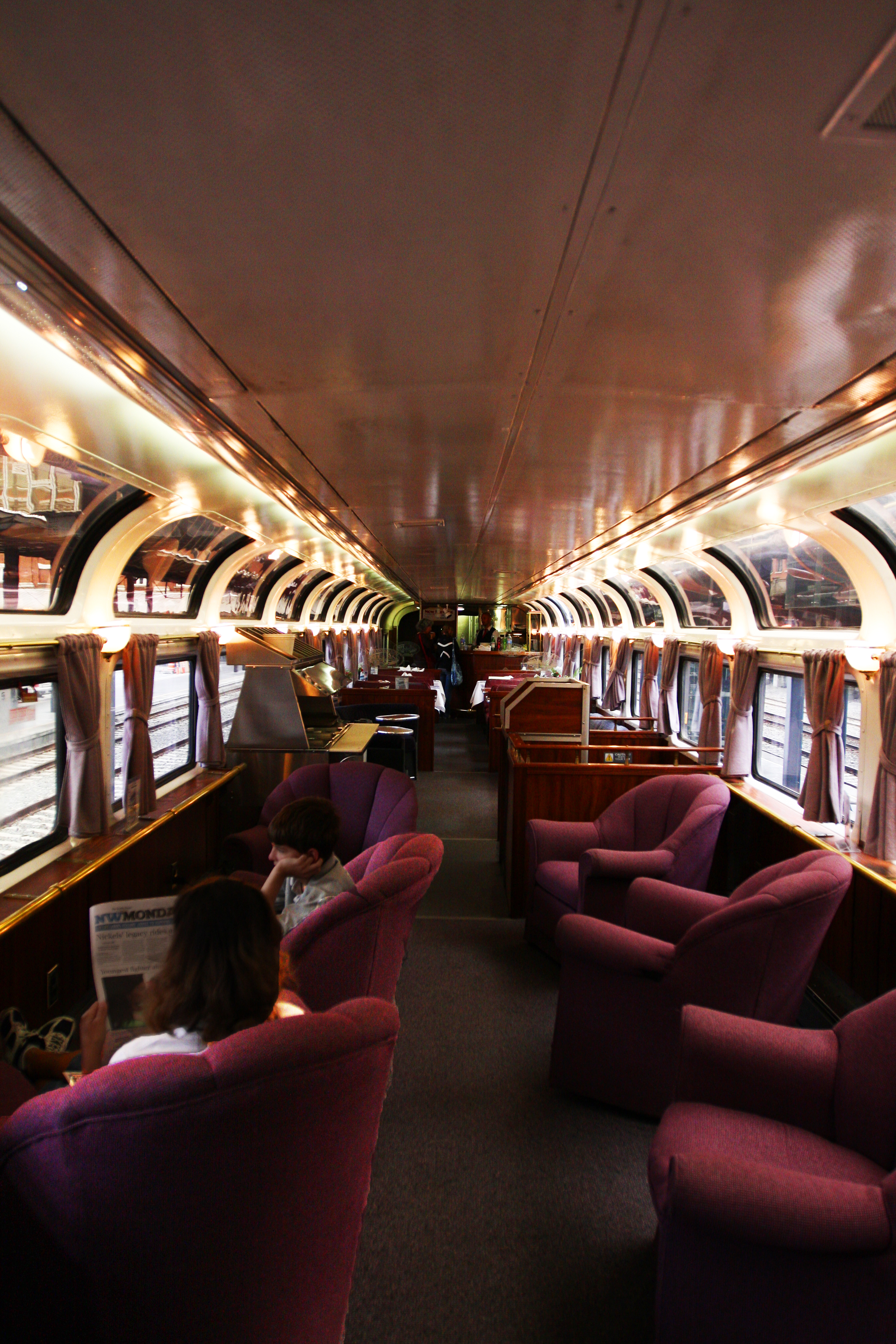 This is the first-class parlour car used on some of Amtrak's longer lines. There is a movie theater on the first floor. In another photo on this site there is an example of the replacement parlour car that is used when this one is not in service. This particular car was being used on Amtrak's Coast Starlight, which runs between Los Angeles and Seattle.